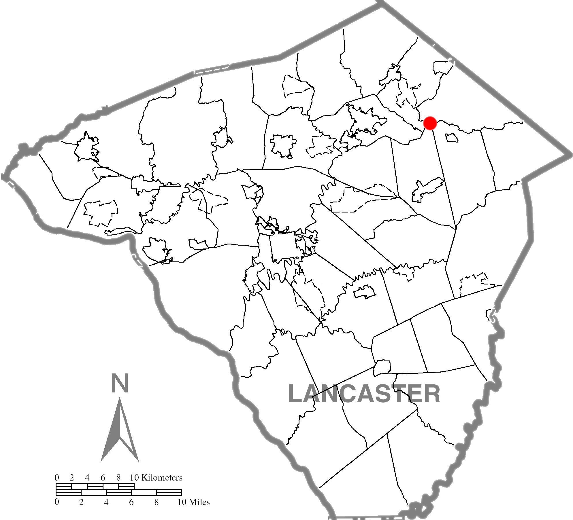 Lancaster County dot map of the Red Run Covered Bridge.